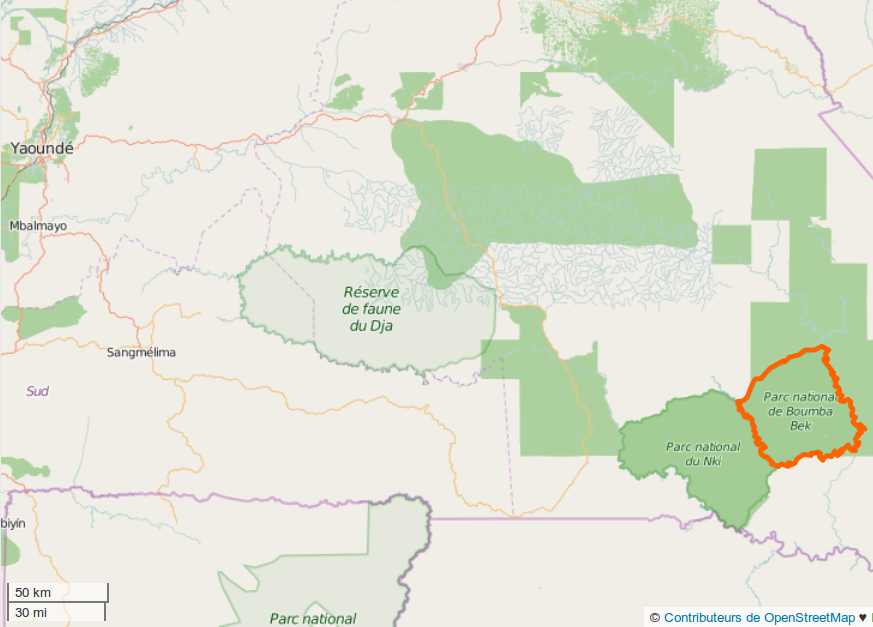 Boumba Bek National Park, Cameroon. (OSM)